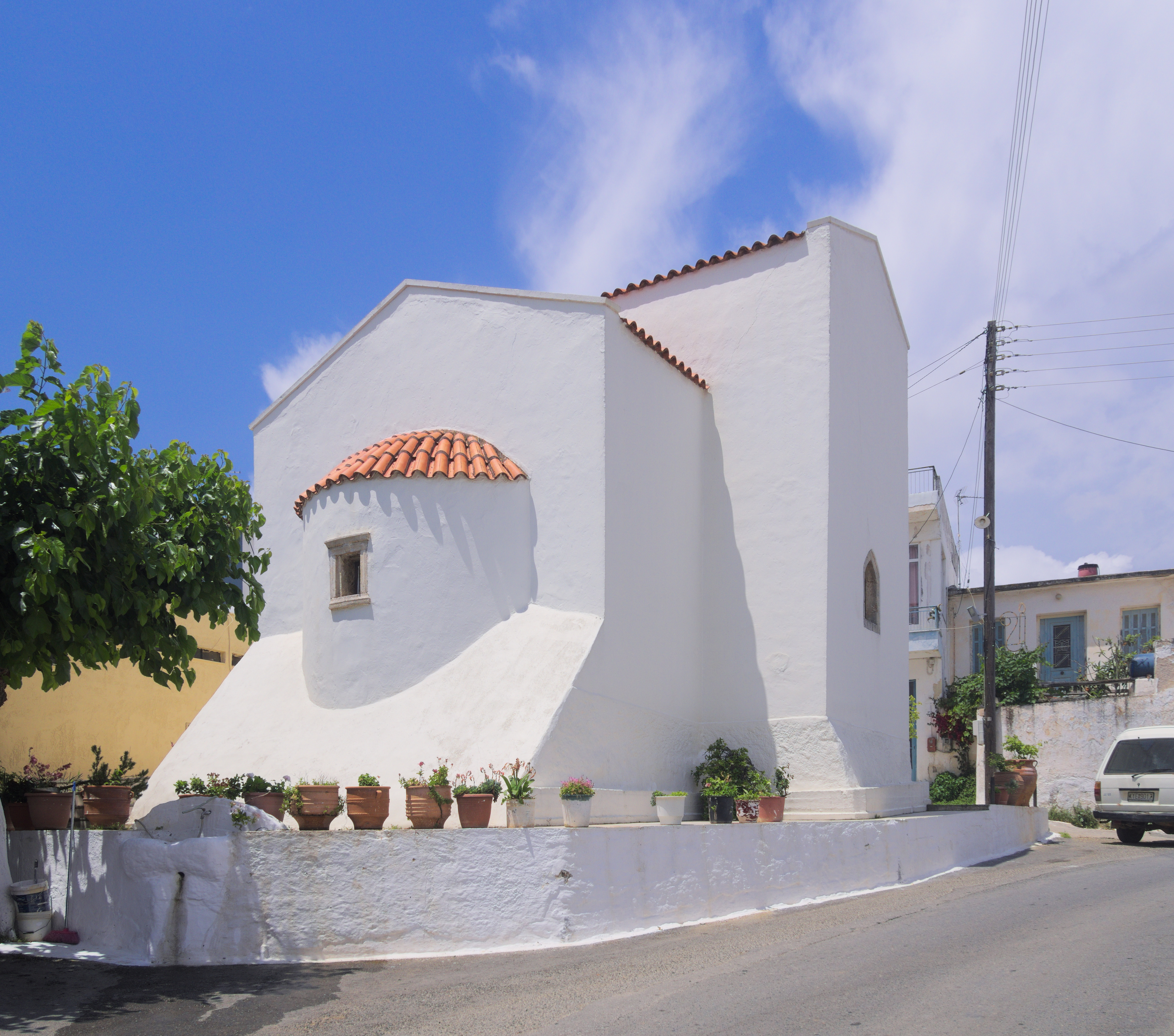 The church of Mary in Evaggelismos, Crete.